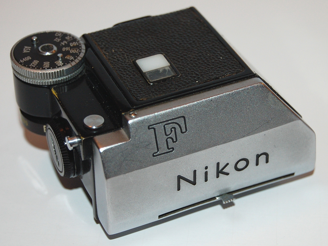 A Nikon Photomic T metering view finder - second generation finder for the (original) Nikon F SLR camera.